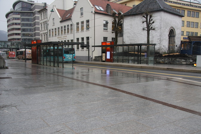 Nonnesaeter station